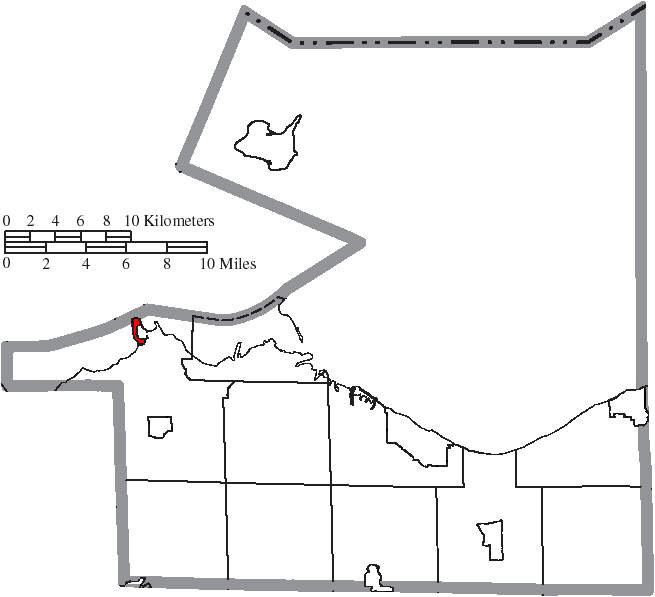 Map of the municipal and township boundaries of Erie County, Ohio, United States, as of the 2000 census, with the location of the village of Bay View highlighted. Township borders are shown only in unincorporated areas in order to differentiate incorporated and unincorporated areas more clearly.